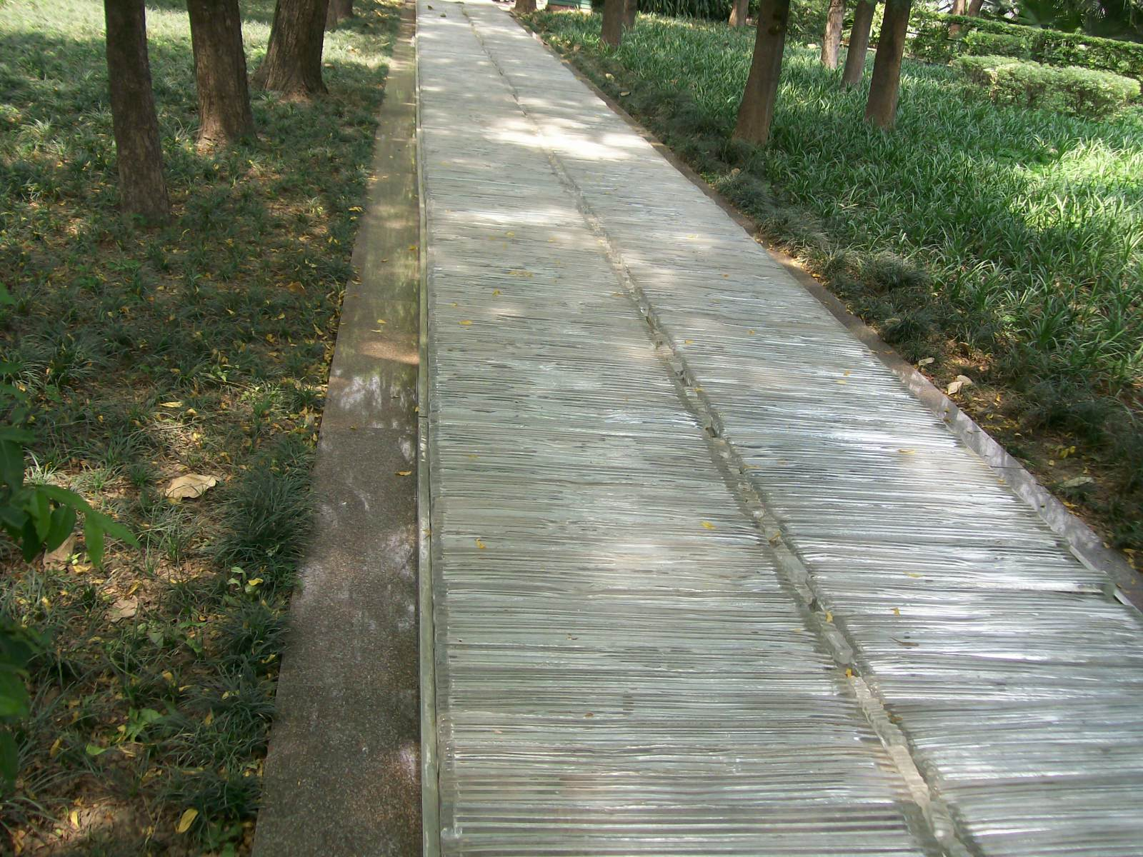 The place where Indira Gandhi was assasinated. Indira Gandhi was walking here when she was assasinated. The site has been preserved at the Indira Gandhi Memorial Museum in New Delhi.